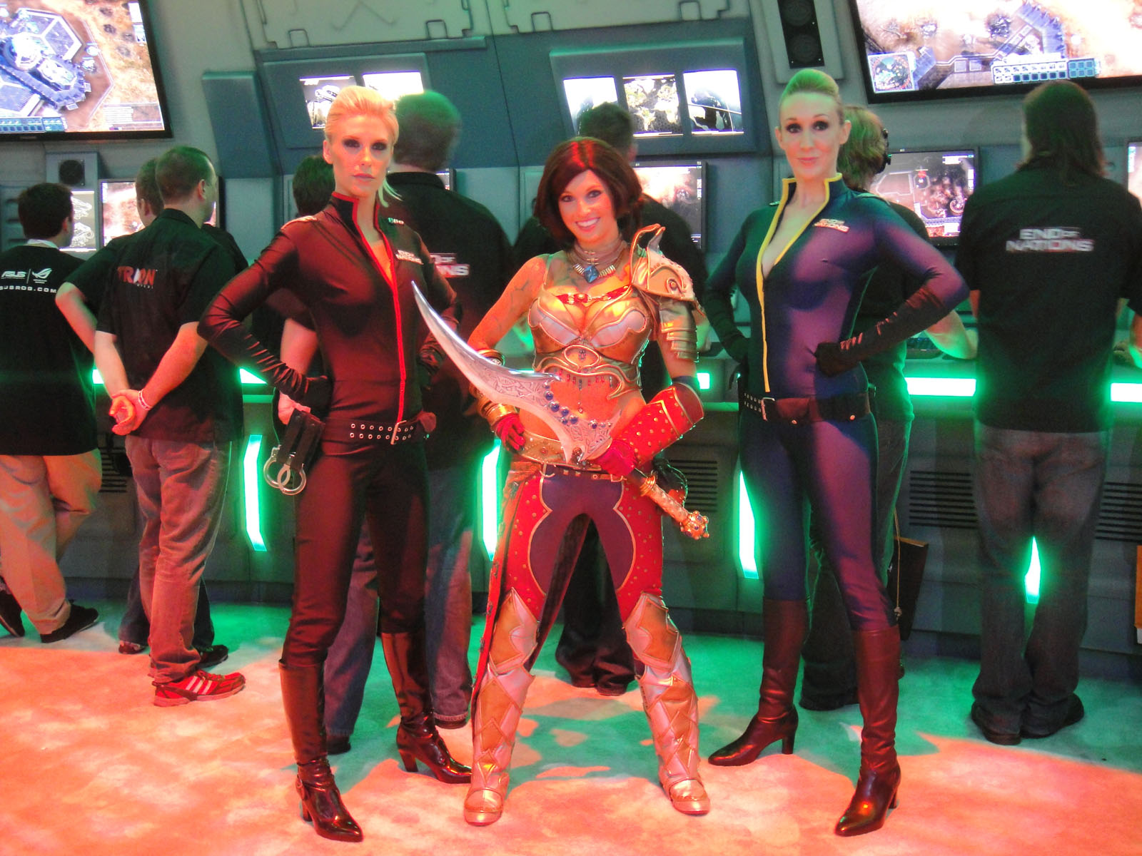 photo 2011 taken by Doug Kline If you're interested in higher resolution versions of my images, contact me via my profile page.